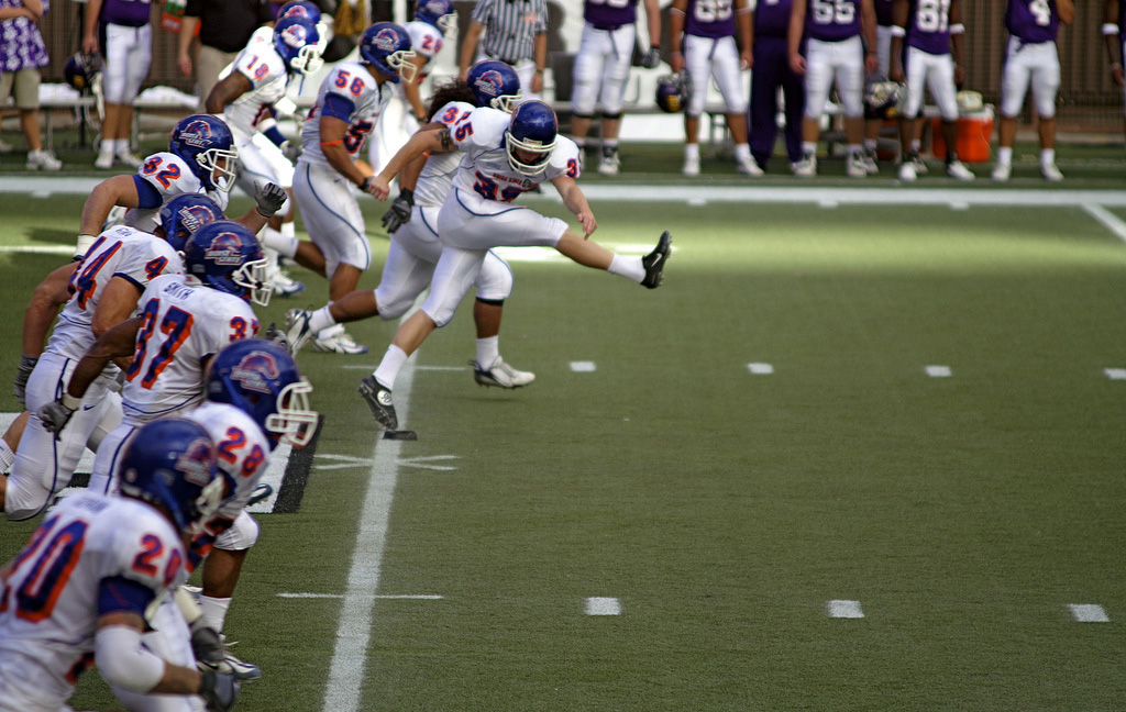 Boise State University vs East Carolina University - Second half kickoff